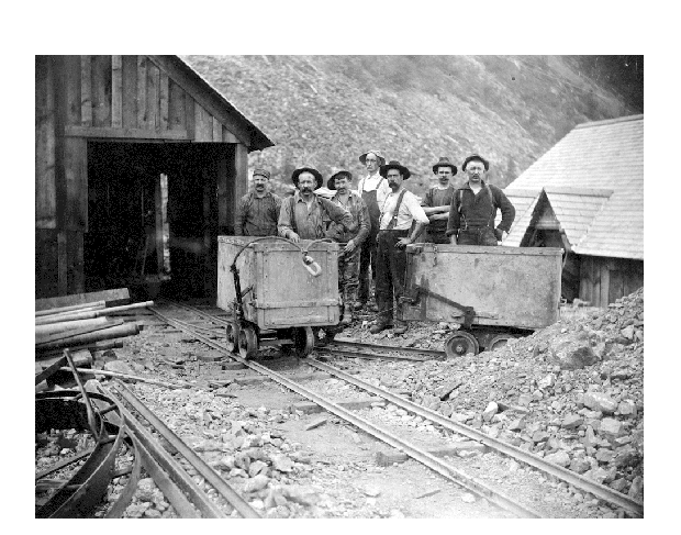 Tariff Mine near Ainsworth, Photographer:Unknown Photo taken:1897 Source:BC Archives #D-01759 [1]